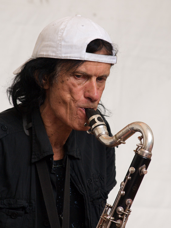 Gunter Hampel, Offside Festival Geldern/Germany 2008